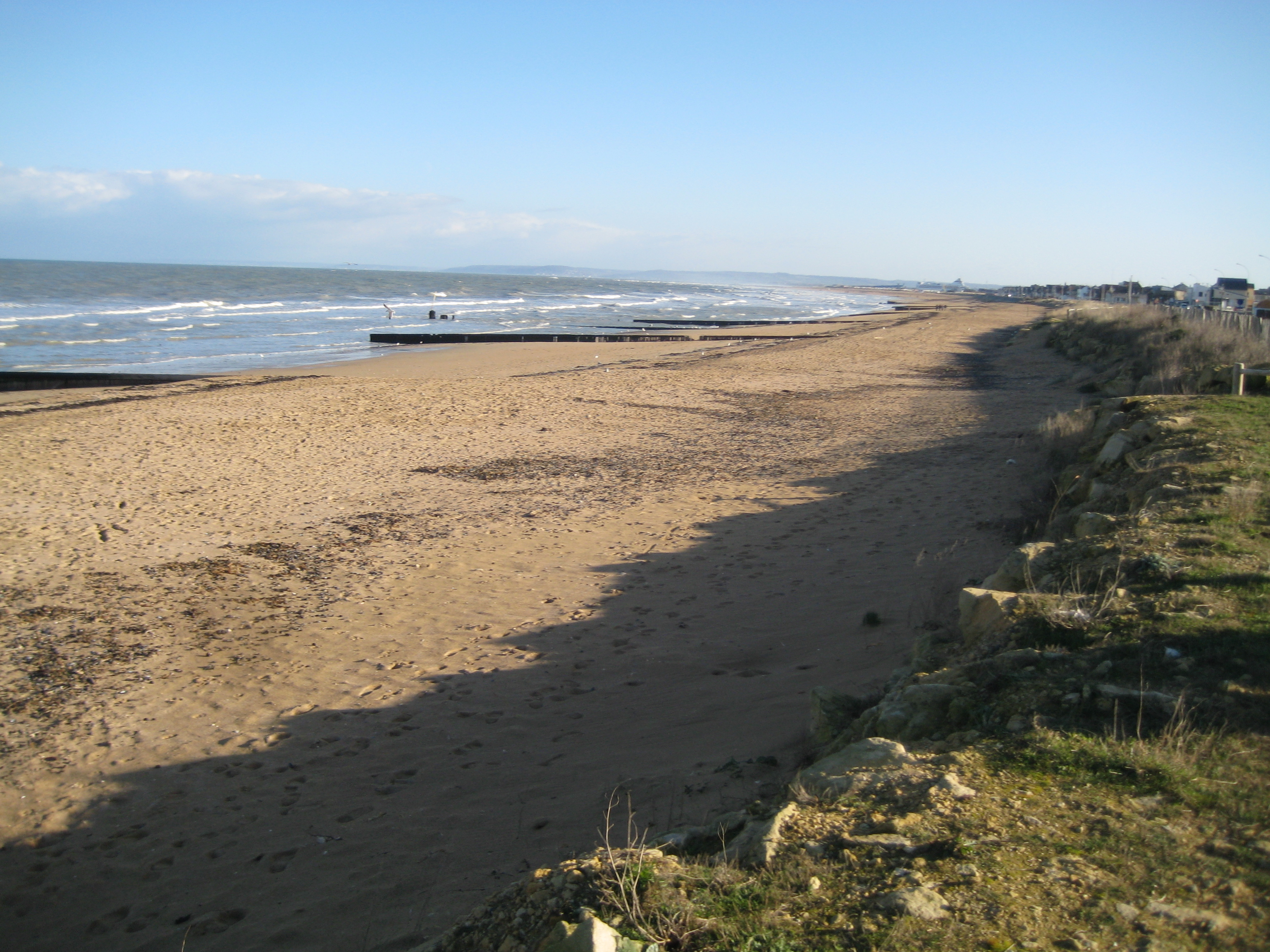 Beach of Colleville-Montgomery, Normandie, France